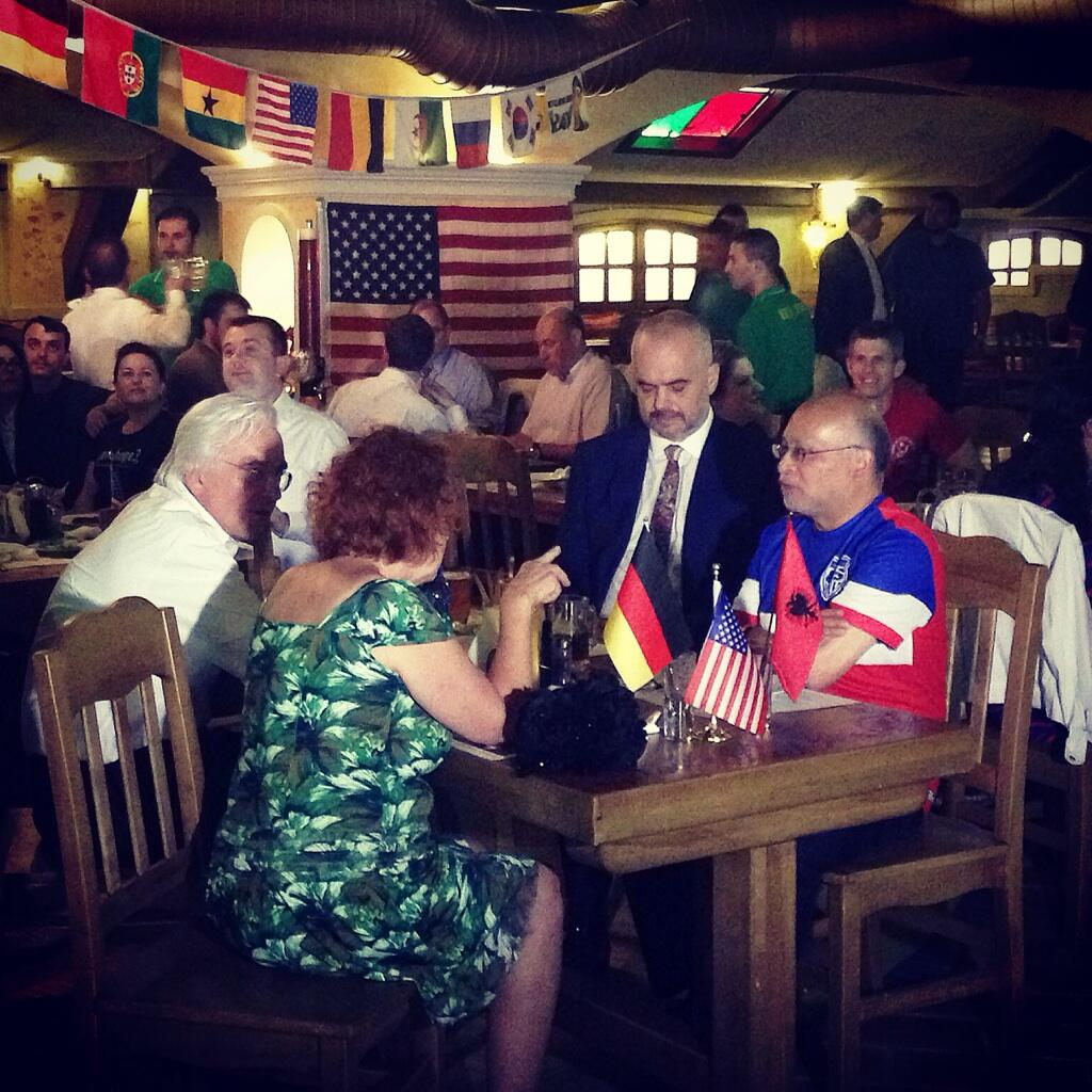 Surprise guest! PM @ediramaal joins Ambassadors Arvizu & Hoffmann for the soccer match between US & Germany.